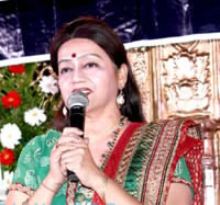 Jayshree T at 'Hum Log Showbiz Awards 2013'